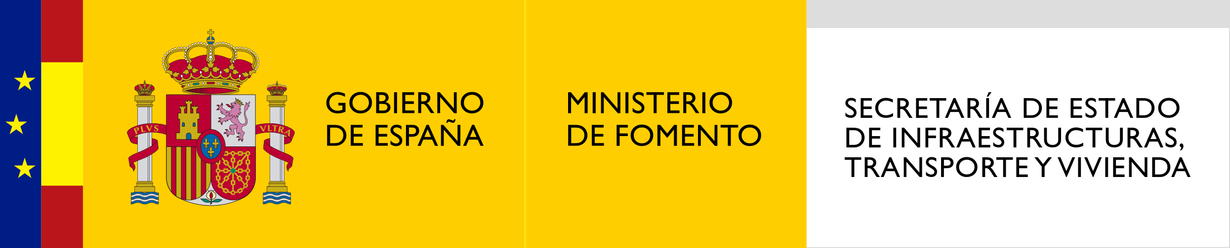 Logo of the Secretariat of State of Infrastructure, Transport and Housing of Spain